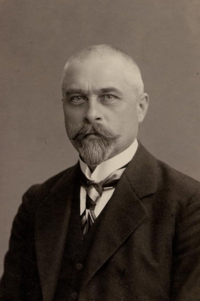 Photography of Bernard Malkmus